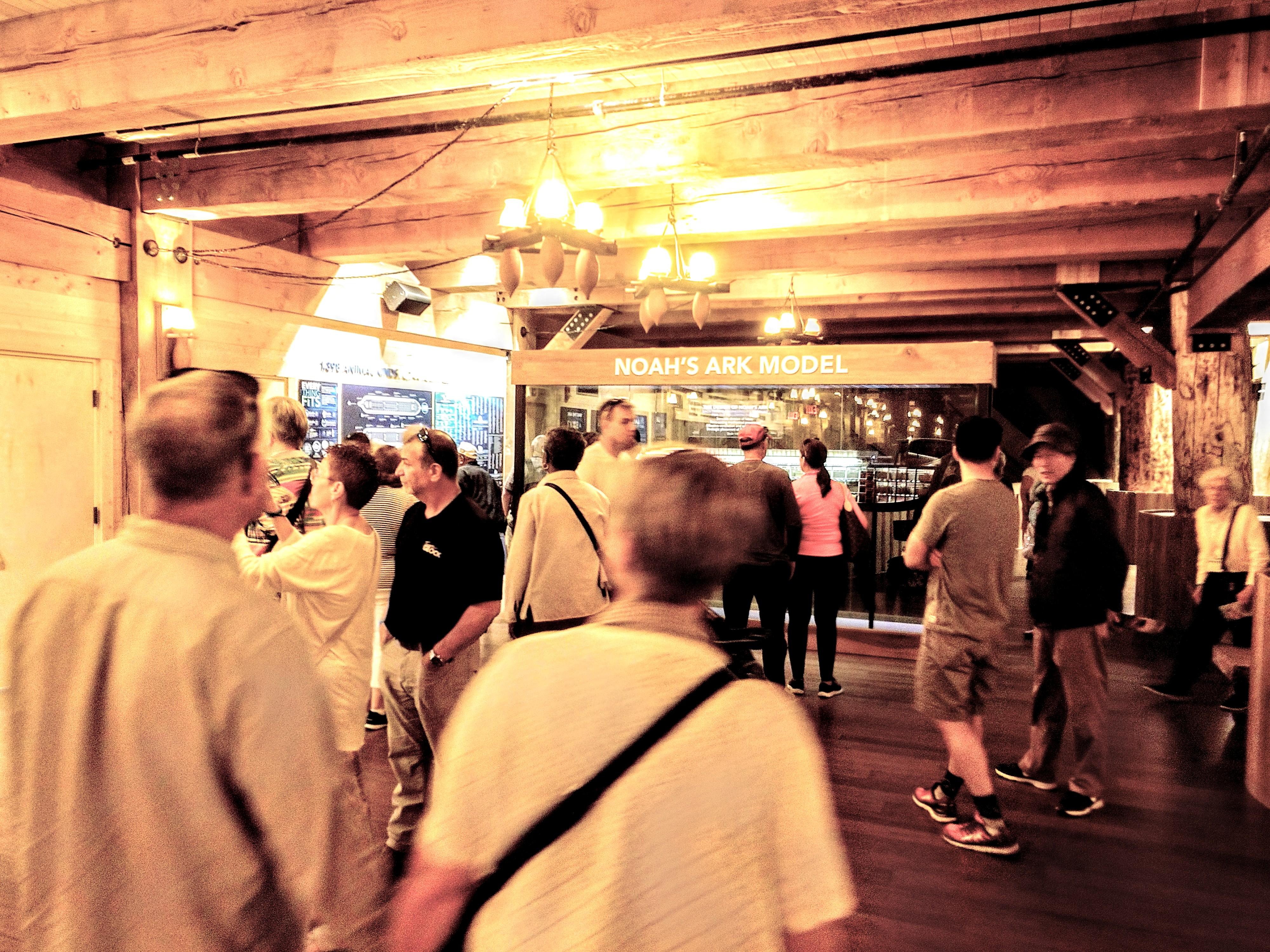 Model Ark